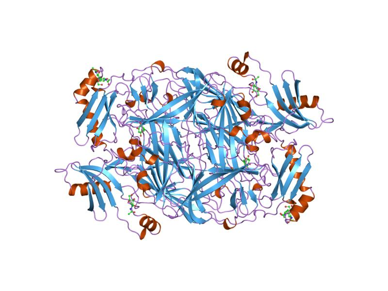 Cartoon representation of the molecular structure of protein registered with 1ksi code.